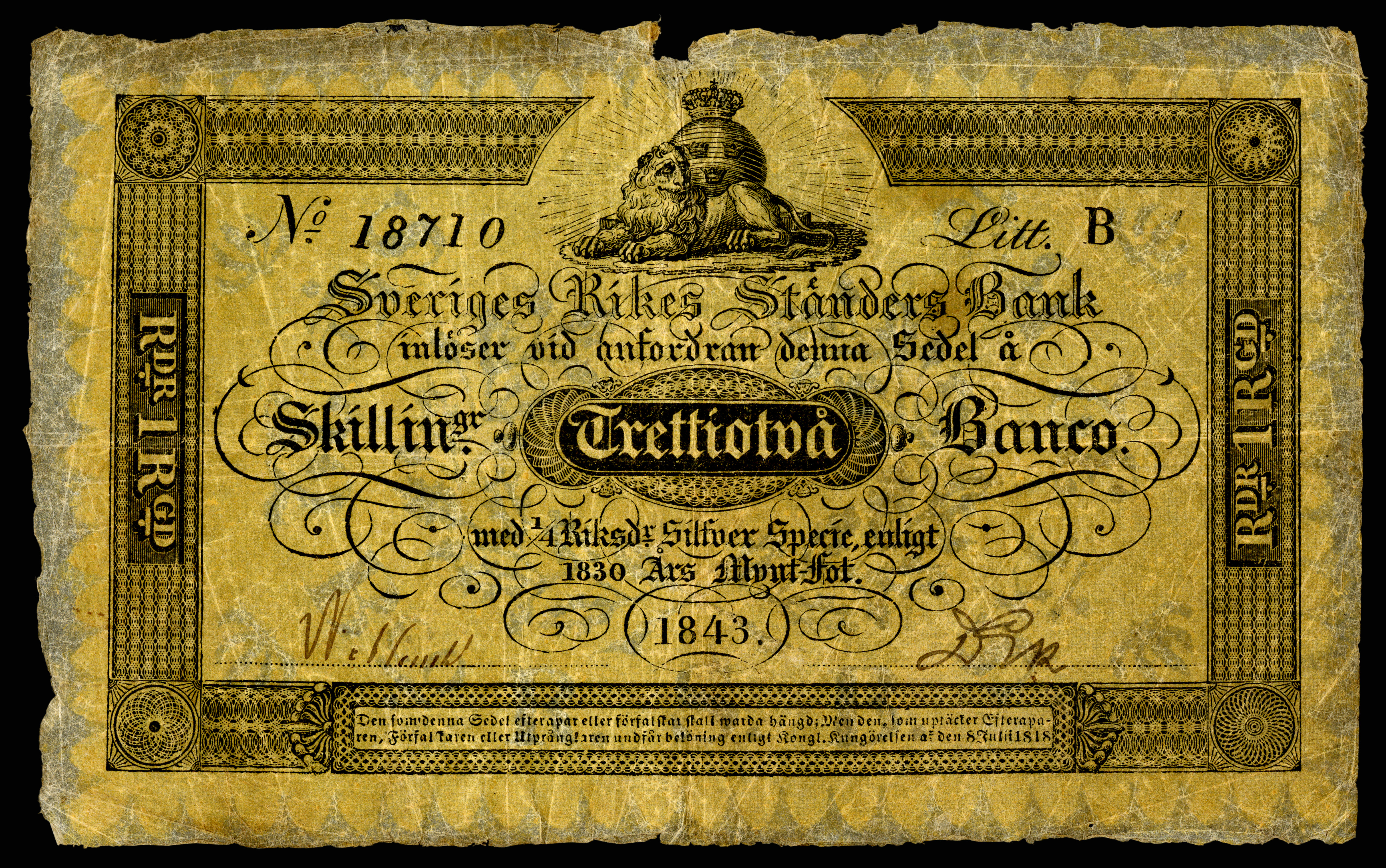 Sveriges Rikes Standers Bank, 32 Skillingar Banco (1843)